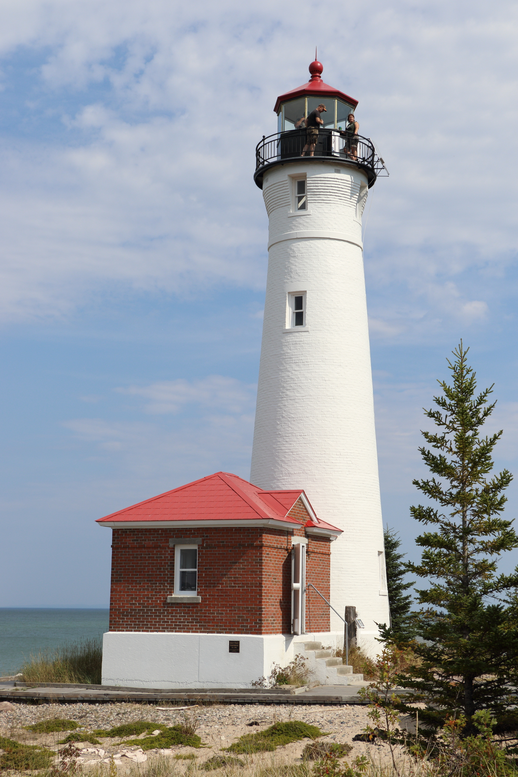 Crisp Point Light, Upper Peninsula of Michigan